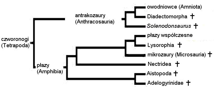 One of the phylogenetic trees of life of tetrapoda. Most lines are extinct.